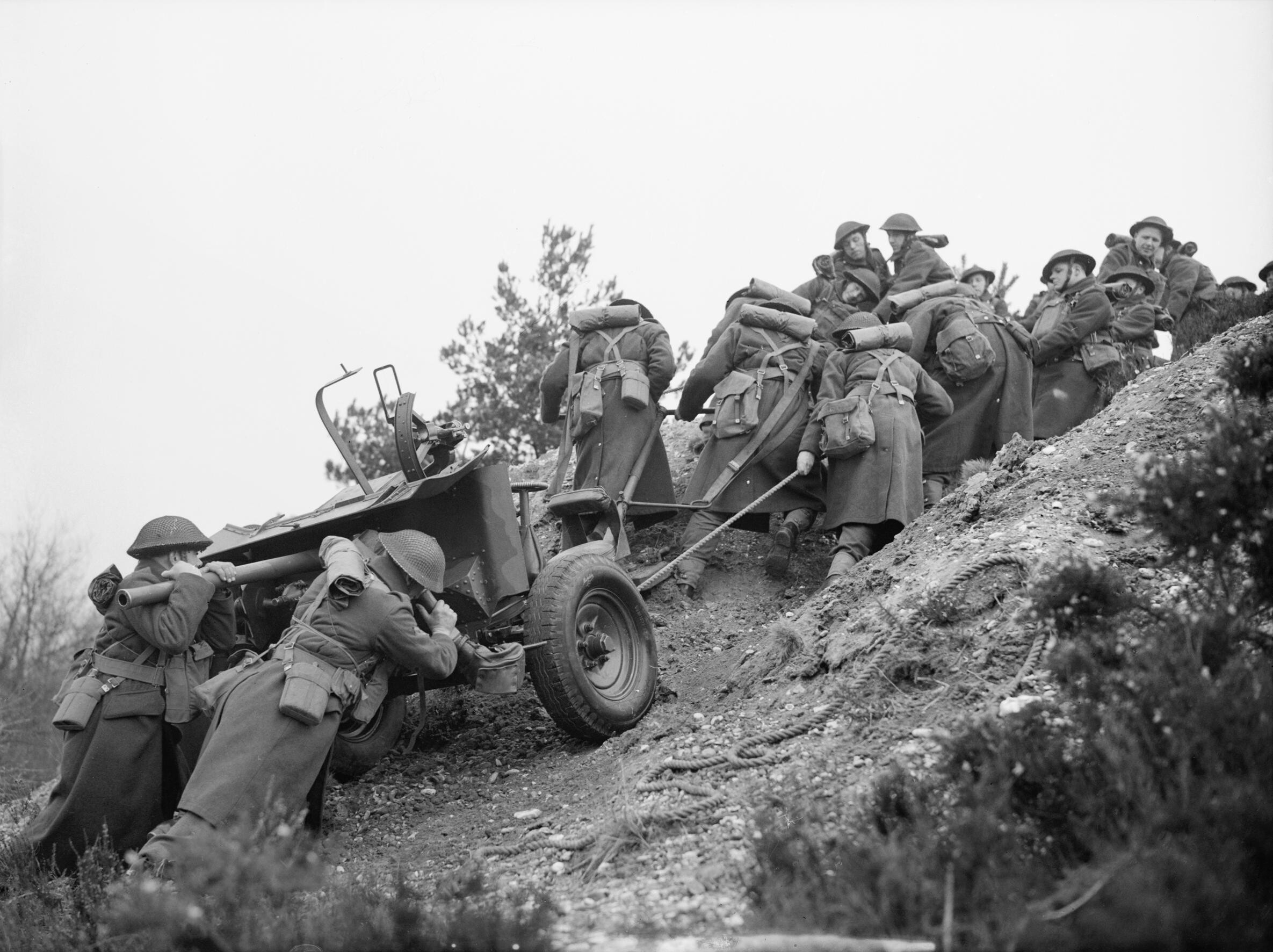 The British Army in the United Kingdom 1939-45 Gunners of 20th Anti-Tank Regiment, 3rd Infantry Division, haul a 2-pdr anti-tank gun up a steep slope during training at Verwood in Dorset, 22 March 1941.